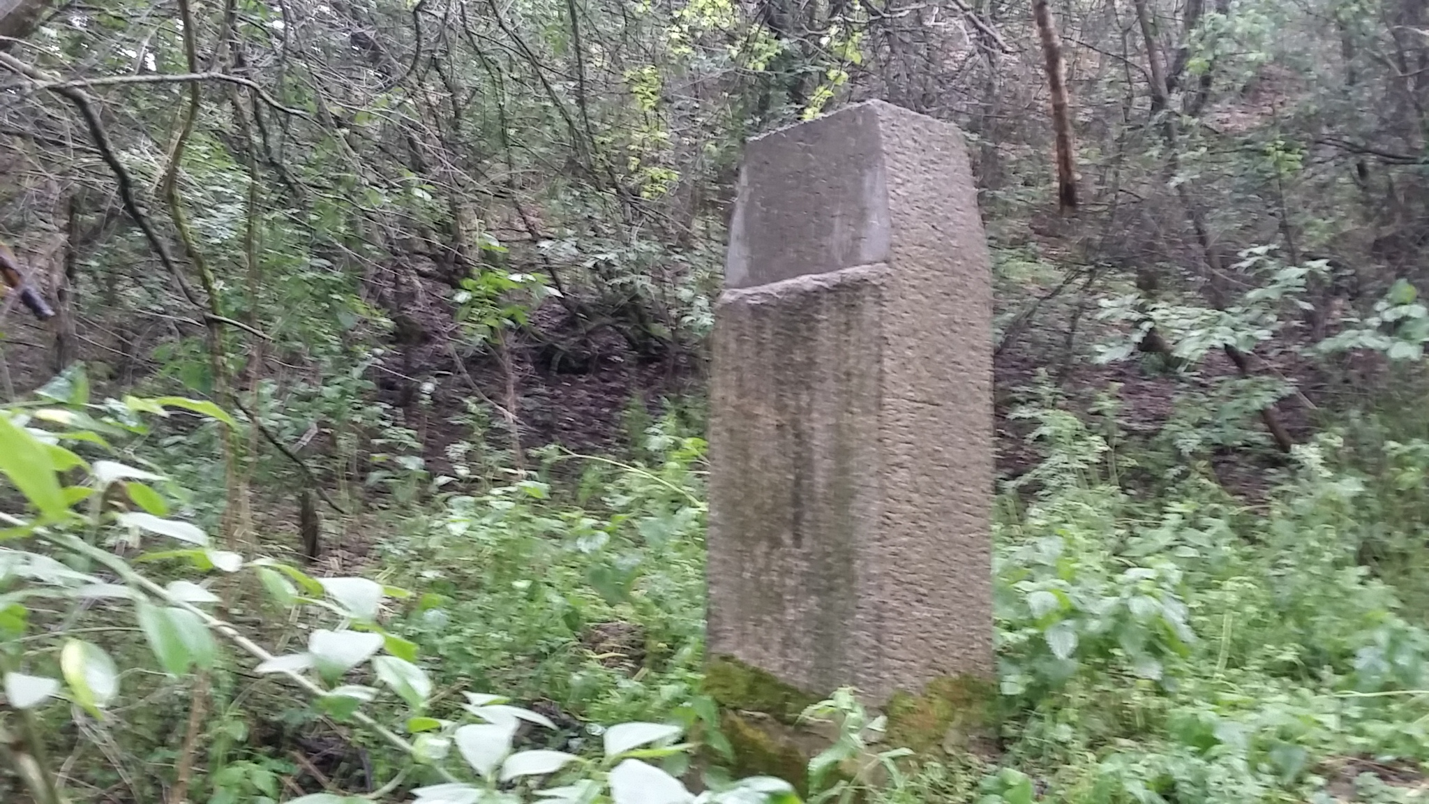 Мемориална плоча на Ранолужки младежки съюз